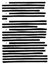 A page from American Civil Liberties Union v. Ashcroft. This image was made public by the ACLU (from [1]).